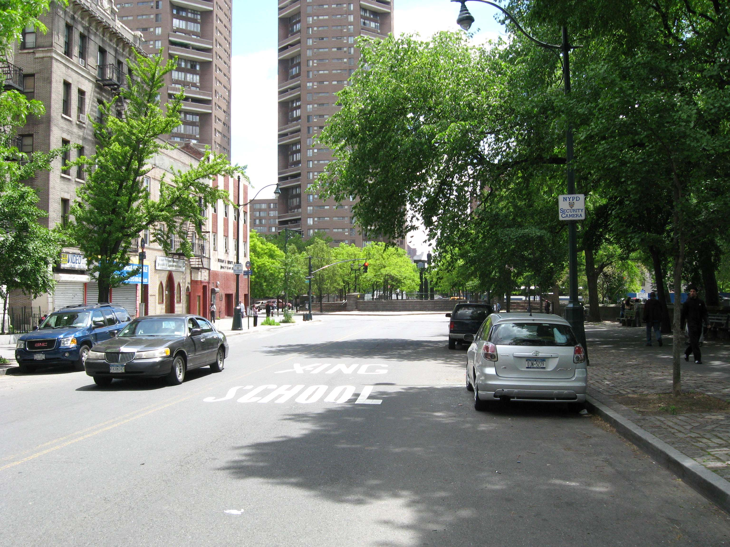 Looking east on a sunny late morning on Central Park North towards Duke Ellington memorial on Fifth Avenue. Pioneers Gate of Central Park on right.